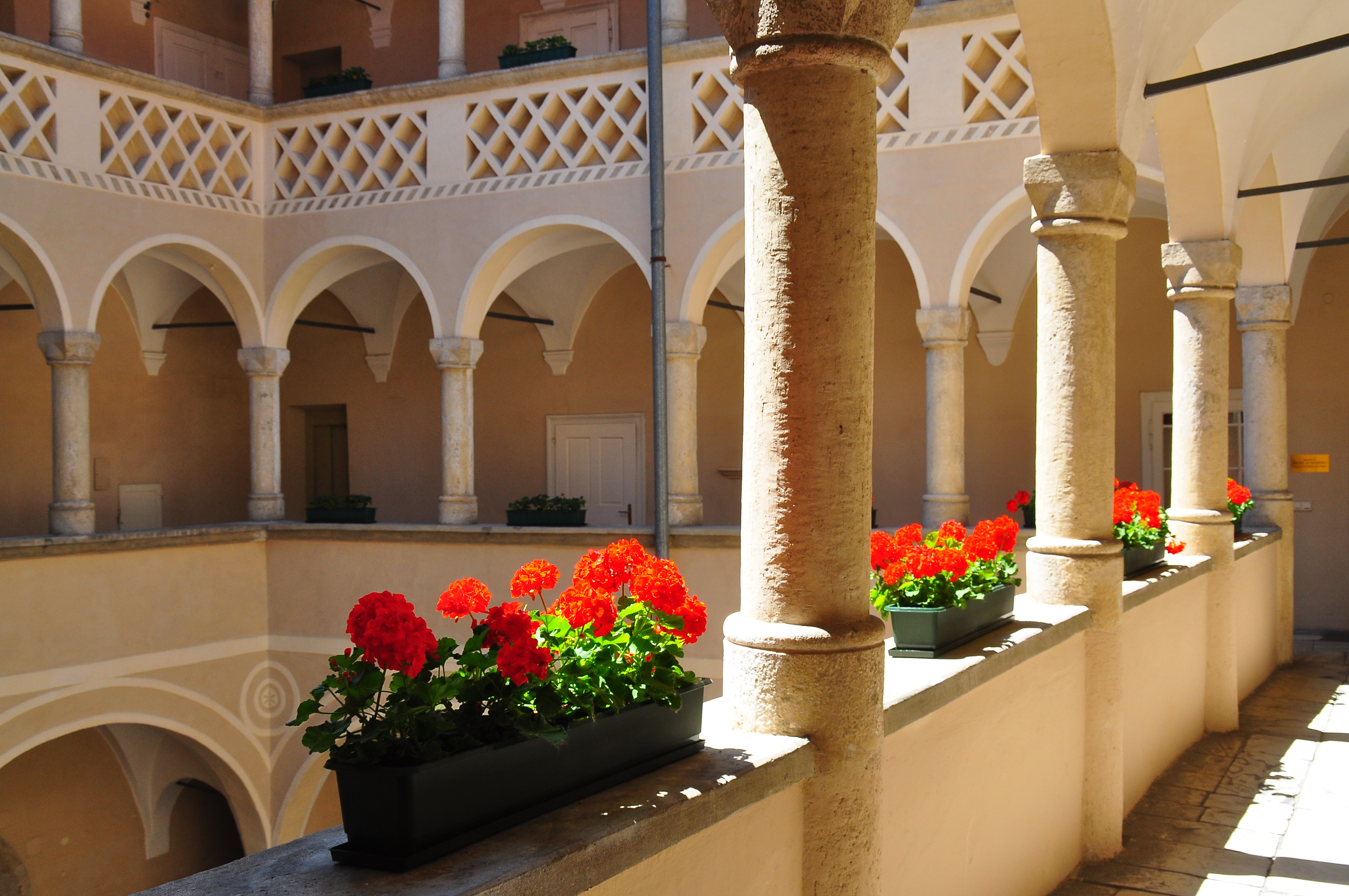 Arcade yard of the old guildhall on the Alter Platz #1, inner city, Klagenfurt, Carinthia, Austria, EU